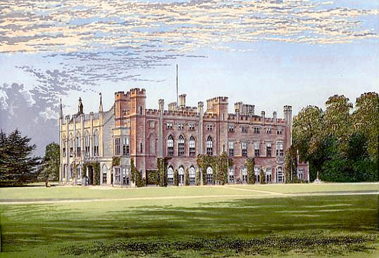 [an error -- Danbury Palace is in Essex, while this is definitely Cassiobury House] published in Morris's County Seats